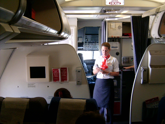 Picture of a TAM Flight Attendant working.